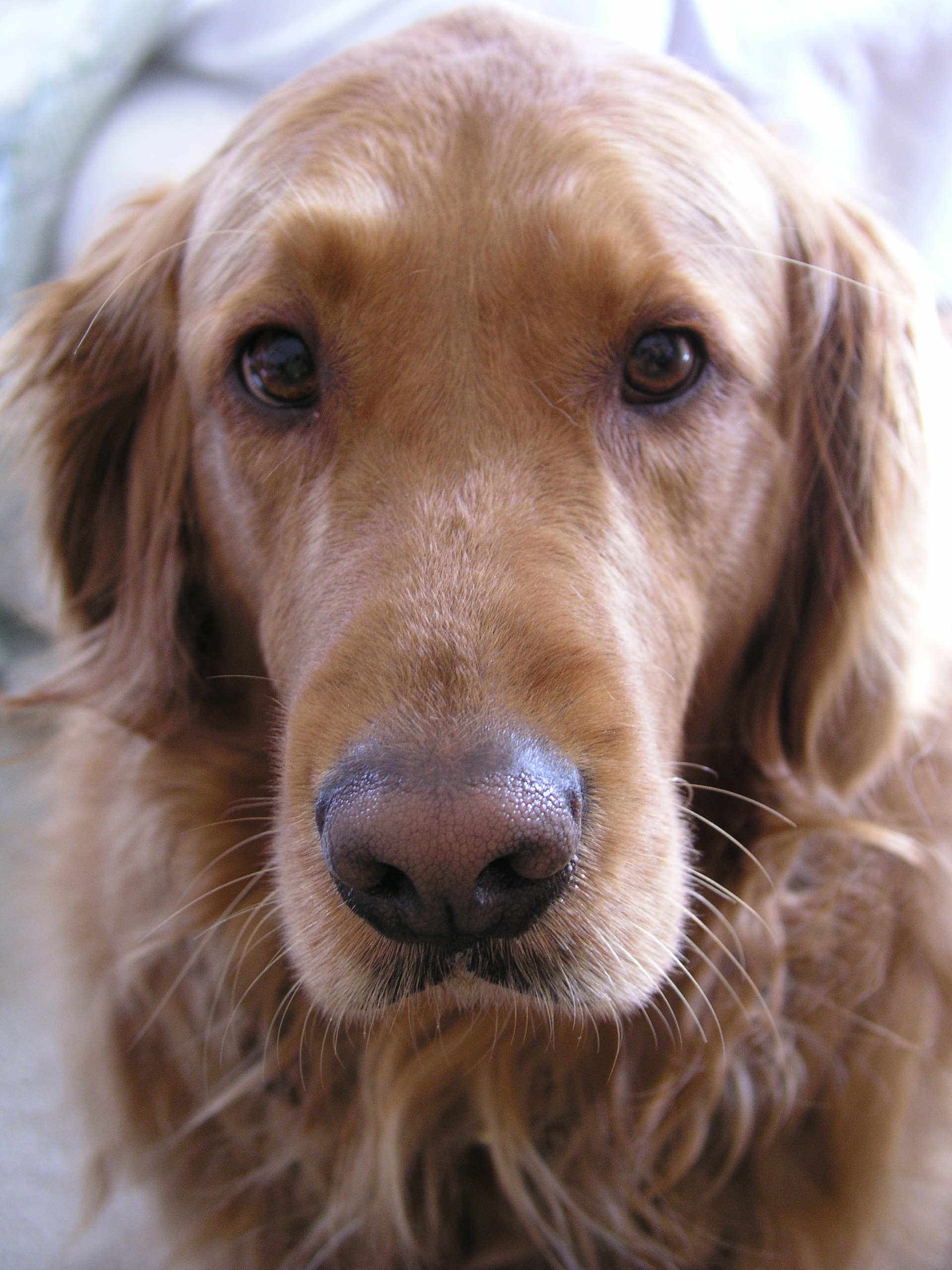 close up of a Golden RetrieverGolden Retriever